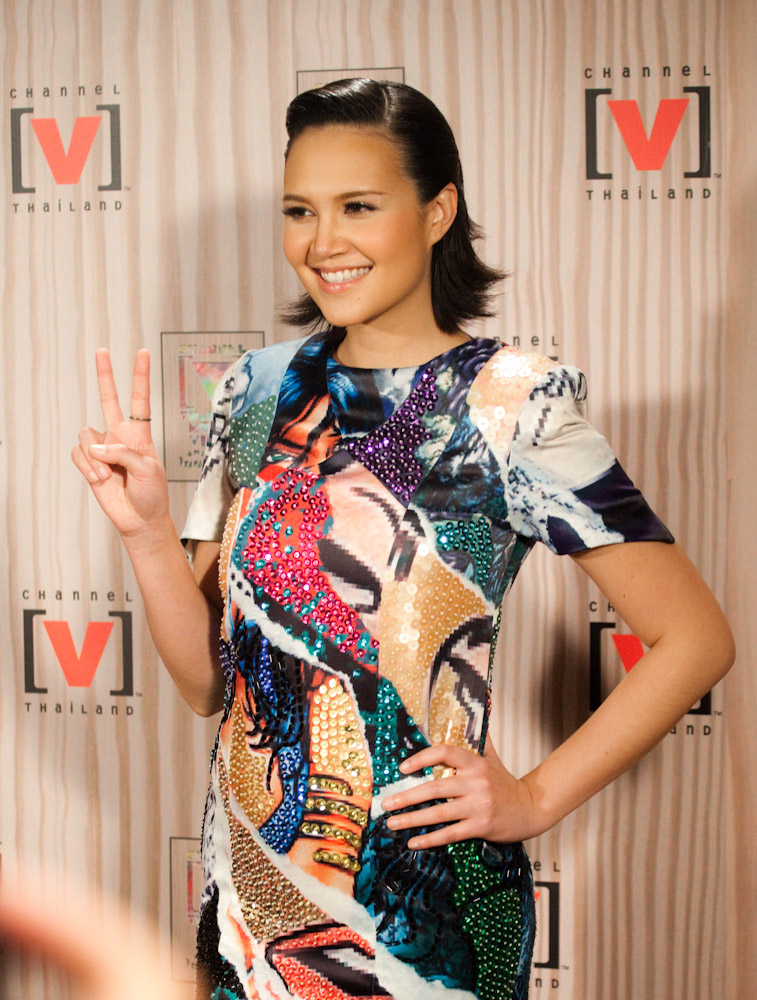 Tata Young, Amita Tata Young, Asia's Queen of Pop